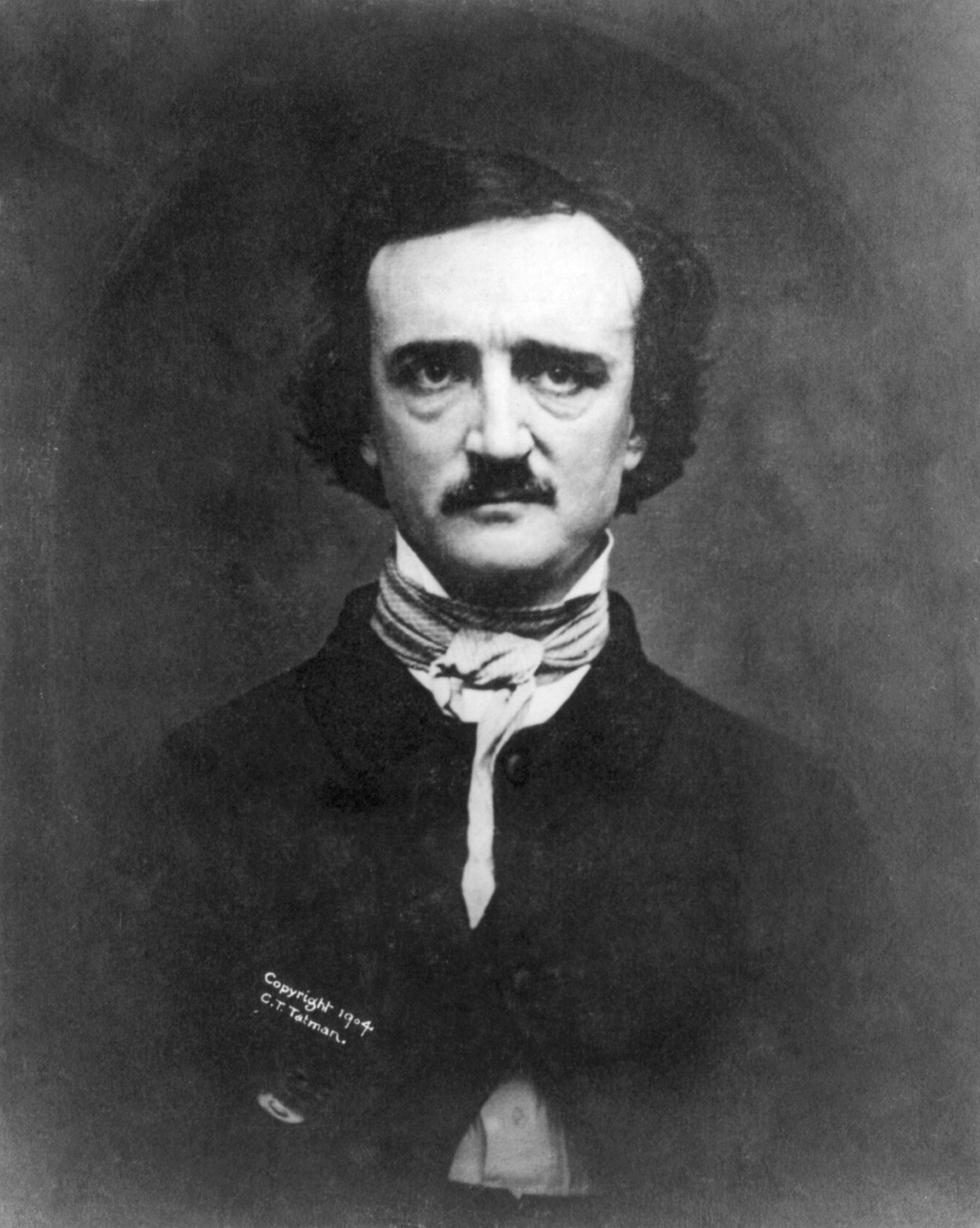 Photograph of Edgar Allan Poe Taken by W.S. Hartshorn, Providence, Rhode Island, on November 9th, 1848 Photograph taken in 1904 by C.T. Tatman. Note: The LOC image is from a copy of a copy; the original has been missing since 1860; see Michael J. Deas, The Portraits and Photographs of Edgar Allan Poe University Press of Virginia, 1988, p. 40. Daguerreotypie: W.S. Hartshorn, Providence, Rhode Island, November, 1848